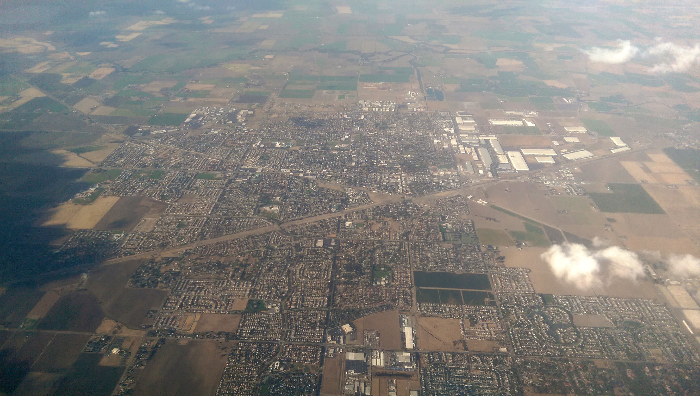 Tracy, California